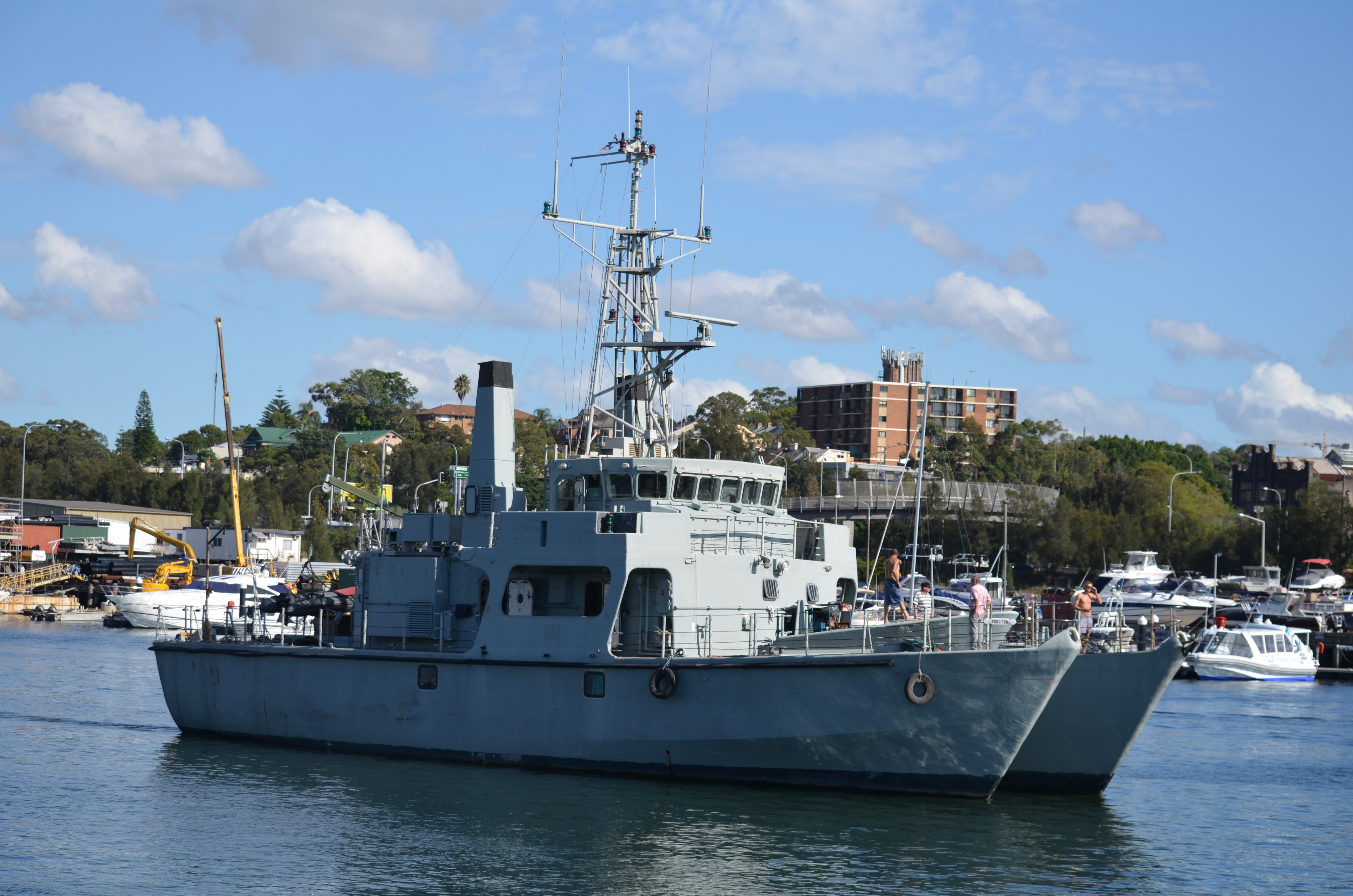 The former Royal Australian Navy minehunter Rushcutter on Rozelle Bay.